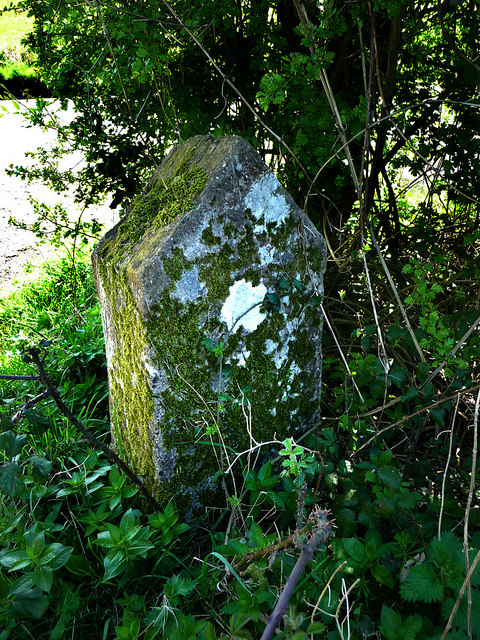 The Murder stone At the side of the road named Cams Hill, leading west out of the village, stands a large stone, a mute memorial to a savage murder that occurred one late evening in August 1782. On their way home after drinking at the New Inn were Nicholas Stares of Soberton and young John Taylor, a blacksmith from Hoe Cross. At this very spot Taylor suddenly attacked Stares, beating him to death with a mop handle and robbing him of a purse of money. He was later executed, and this stone was erected perhaps as a warning to others. It has always been known locally as the Murder Stone